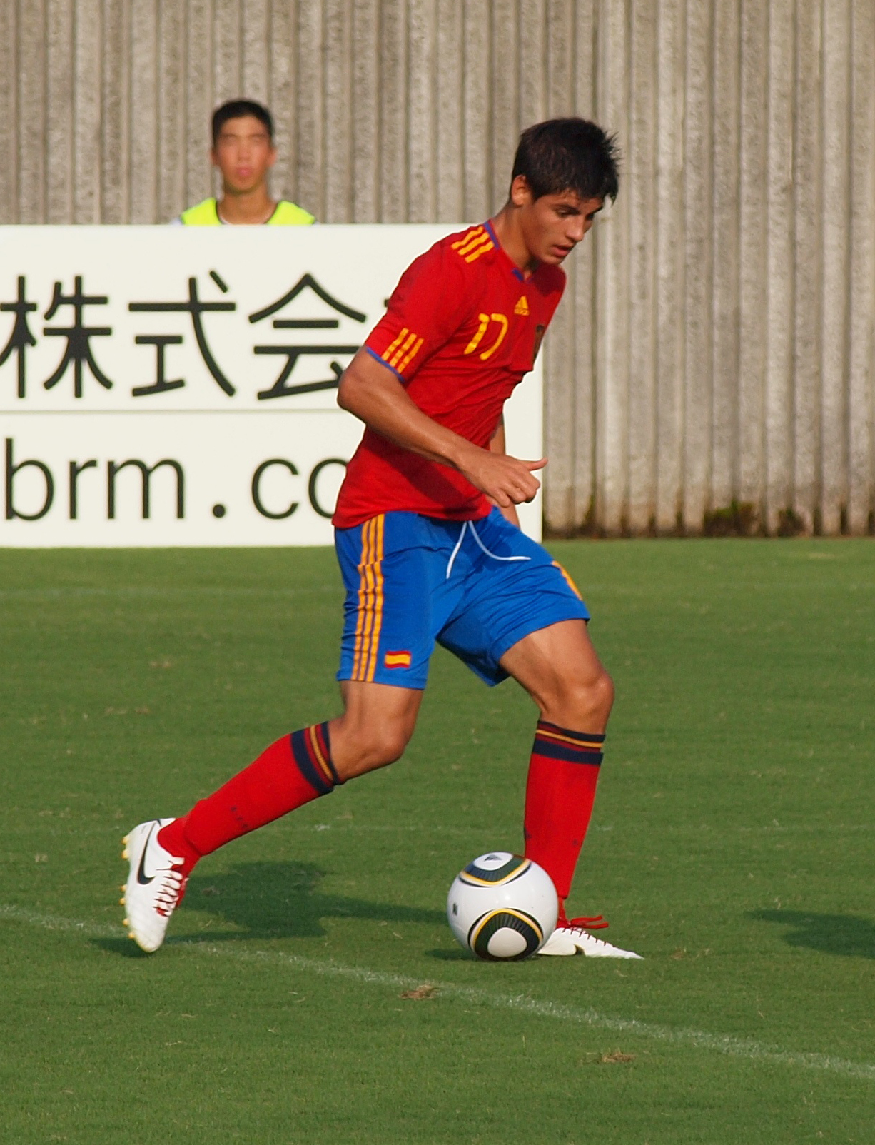 Álvaro Morata, Spain U-19, SBS Cup 2010 in Fujieda, Japan